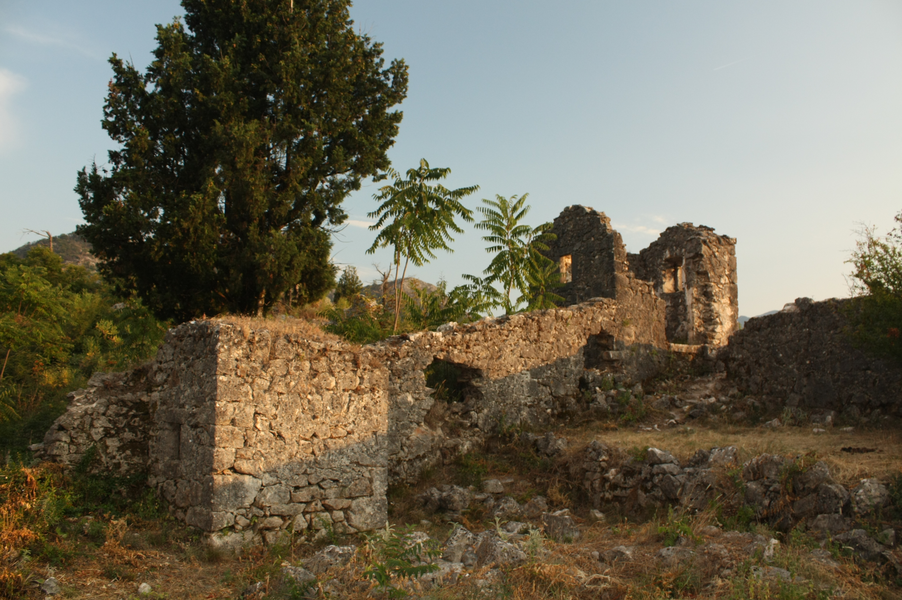 Besac castle above Virpazar, Montenegro